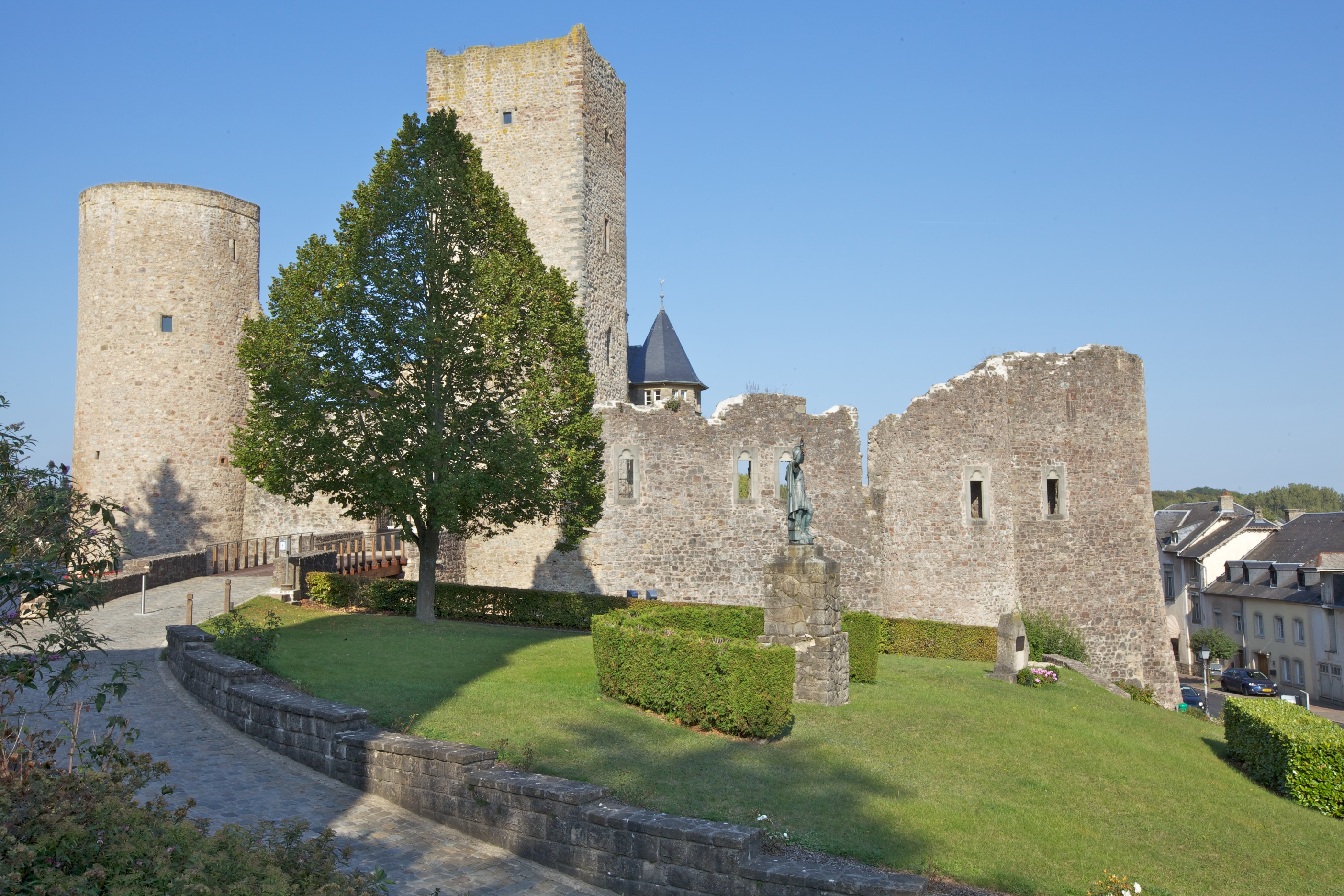 Castle of Useldange, Useldange, Luxembourg